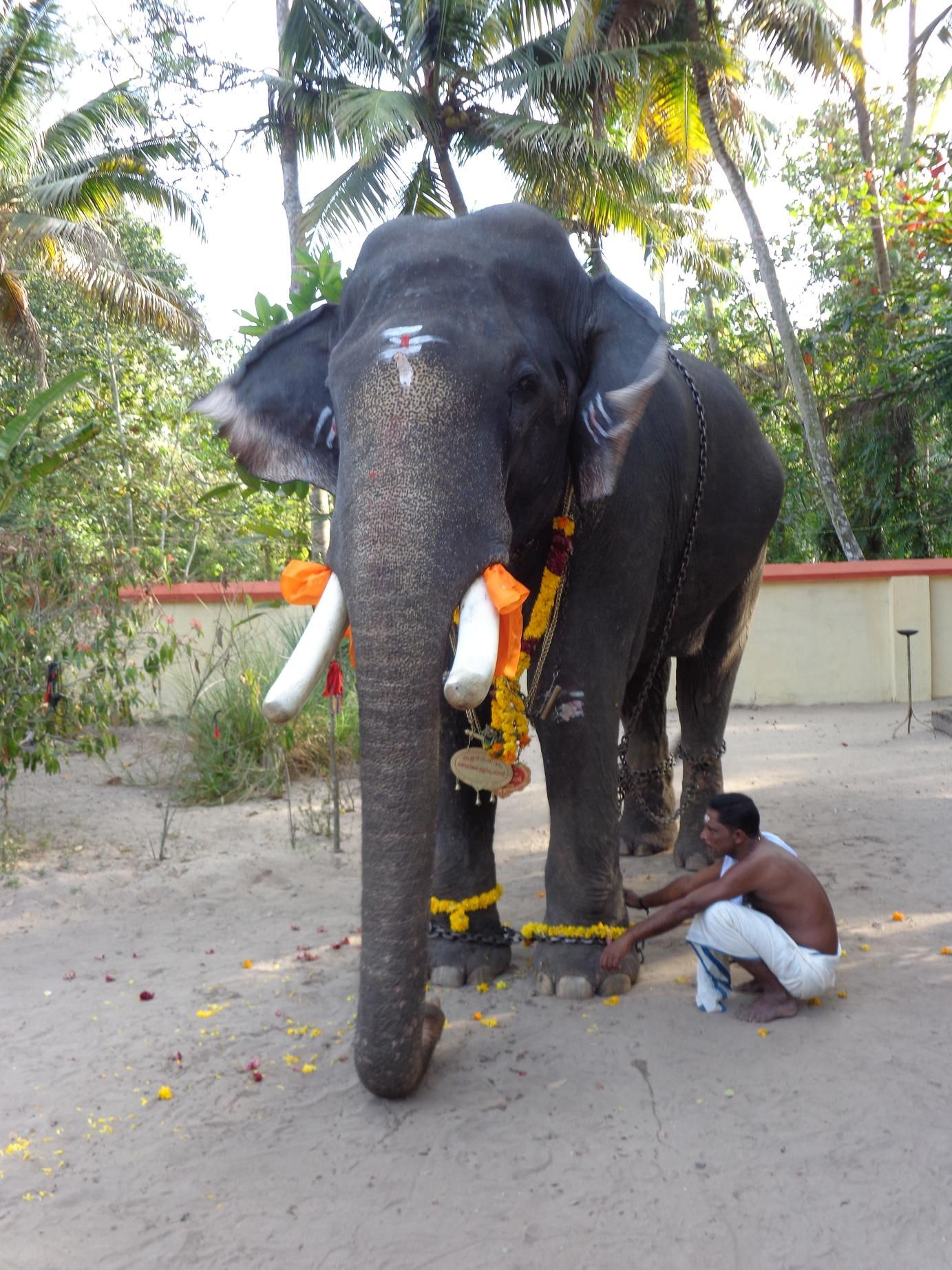 mavelikara unnikrishnan, the temple elephant of mavelikara sreekrishanswami temple. at kattuvalli 2014